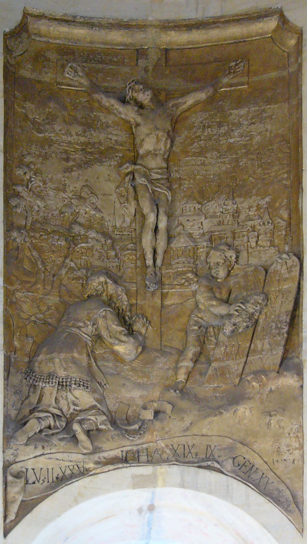 Holy Trinity Column in Olomouc (Czech Republic) - one of reliefs in the inner chapel depicting Crucifixion of Jesus.